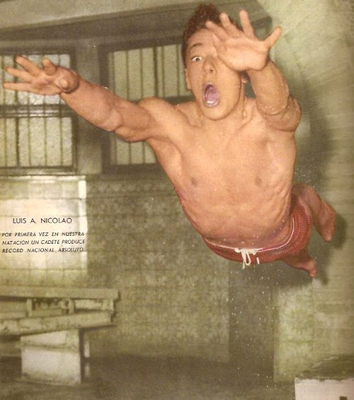 Luis Alberto Nicolao. Swimmer (nadador). Argentina. Frontpage of "El Gráfico" magazine.